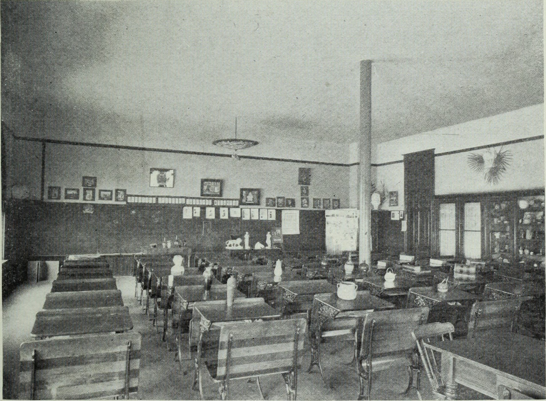 Title: Annual Catalogue of the State Normal School at Mankato, Minnesota Year: 1870 (1870s) Authors: Mankato Normal School Subjects: Mankato Normal School Publisher: Mankato, Minn. : State Normal School : Weekly Union Print. Office (Printer) Text Appearing Before Image: KINDERGARTEN. Text Appearing After Image: DRAWING ROOM. MANKATO, MINNESOTA 41 Elizabeth Adeline Fields, Edith Lorene Fiero, Beatrice Fanny Footner, Mabel Freundil, Nellie Gill, Mabel Glenn, Katharine Staples Hanson Carl L. Hanson, ►Sophia Hanson. Sarah Adeline Haynes, Alois P. Hodapp, Viola Ruth Hodson, Carolyn Marie Hottinger, Josephine Hurd, Reua Josephine Johnson, Priscilla Jones, Elizabeth Jones, Tracie Marie Kranz, Mary E. Kuilp, Amelia Fredrica Leonard, Arnold Lien, Richard Lloyd, Joseph John Ma eh, Loren Eugene McCormick, Josephine McBride, Edith Blanche McDuffee, Mildred Iris McGraw, Cora Fern McGraw, Jessie McKellar, Charles McGee, Daniel James Mahoney, Laura Anna Mallin, Jessie May Mendenhall, Henry W. Meaney, Genevieve Mullen, Nora Murray, Edith Blanch McDuffey, John OBrien, Rose Catherine OBrien, Adina Carolina Olson, Anna Olson, Florence Parker, Anna C. Peterson, Lulu May Pettir, Lootie Phelps, Ruby Alice Phelps, Oreo m. Mankato. Maukato. Mankato. Mankato. Maukato. Mankato. Mama. Linlen. Bel ay an. Beauford. Ma